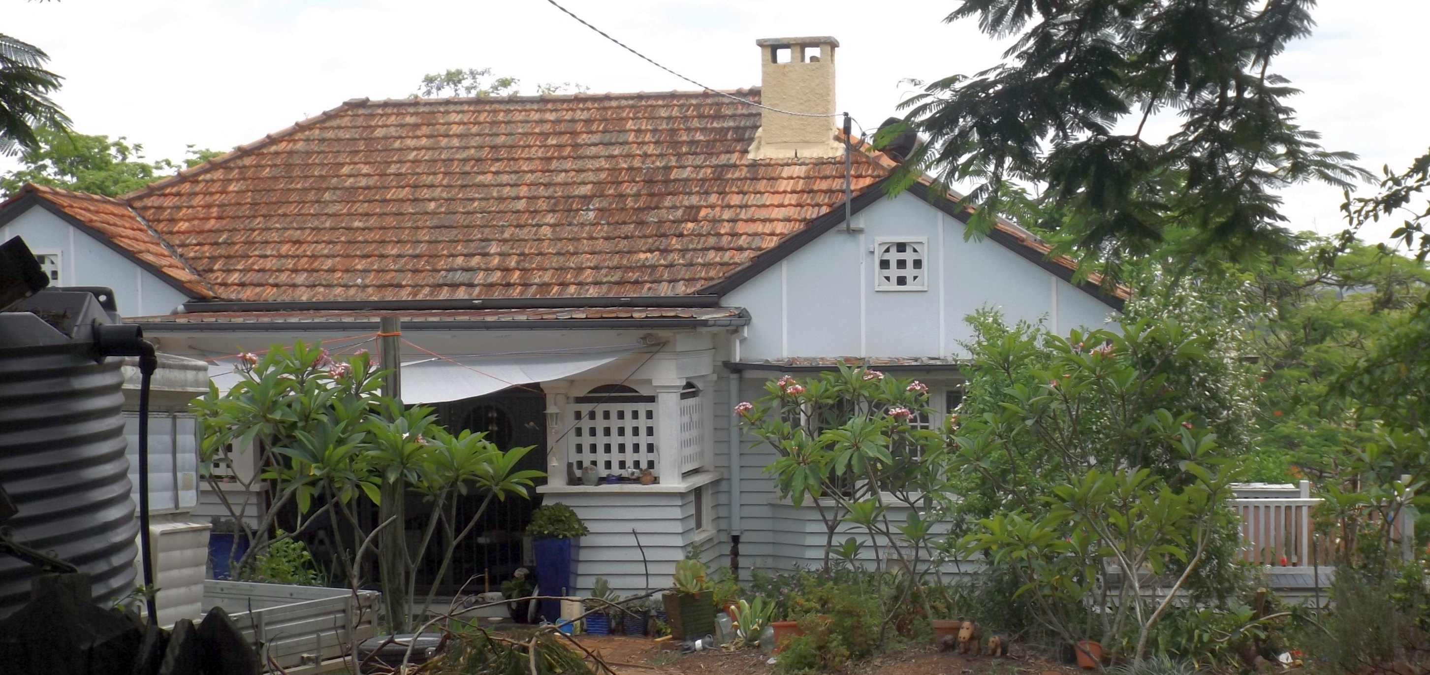 Photo of Monkton at Corinda, Brisbane, Queensland, Australia.